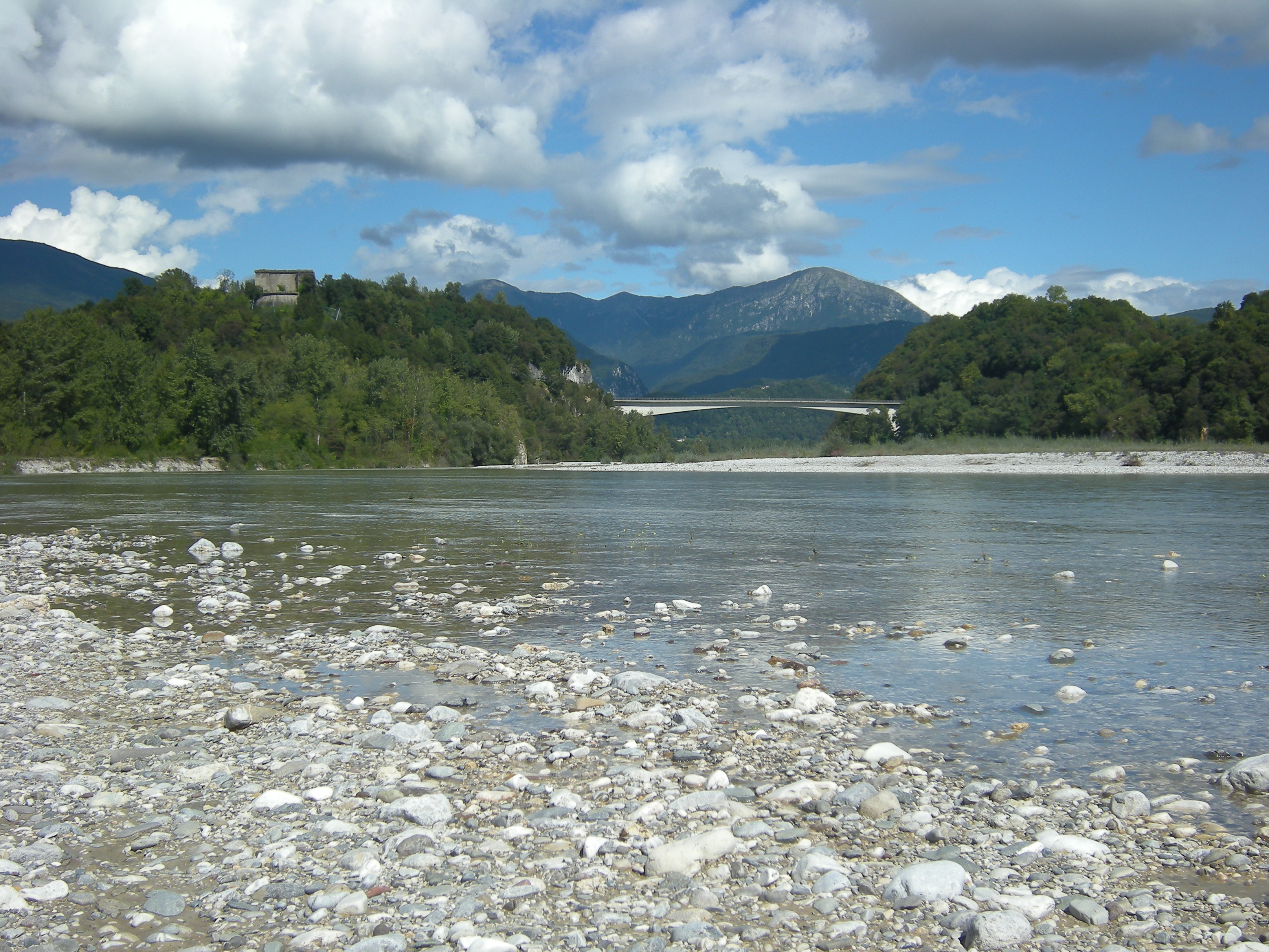 The bridge and the charnel house of Pinzano